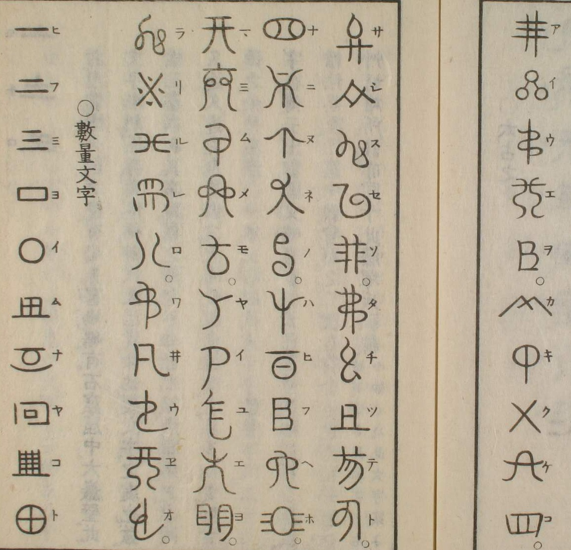 Izumo characters